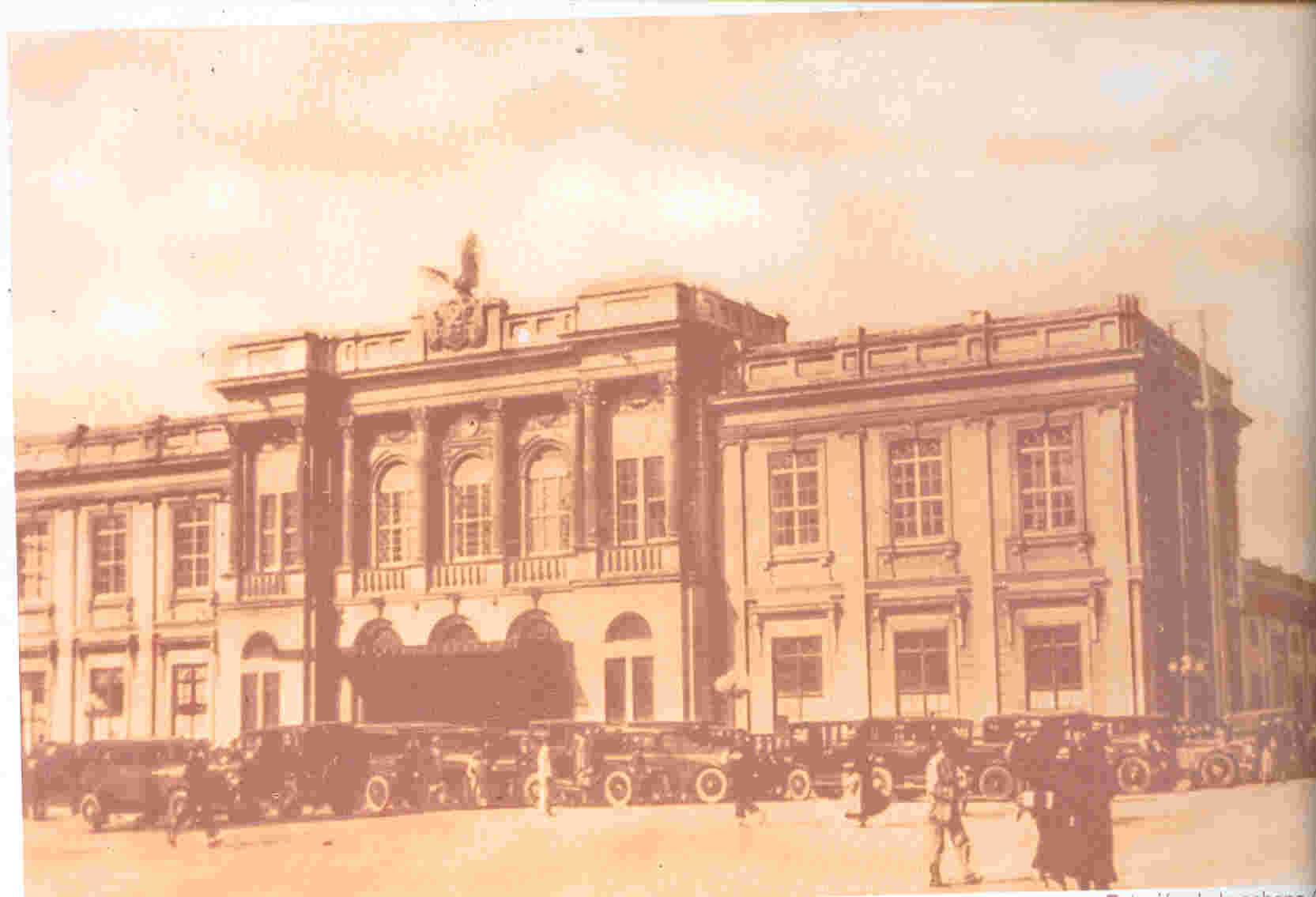 Central Station of the Savannah Railway in 1930.